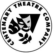 CTC Logo